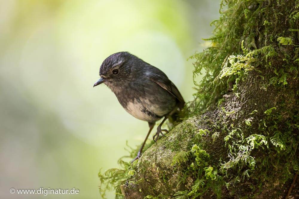 Robin (Petroica australis) - Steart Island